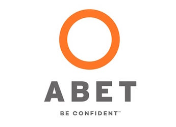 ABET logo